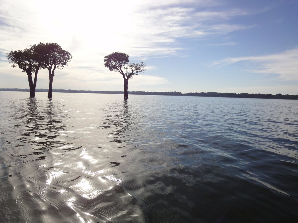 Image of son beel karimganj, assam